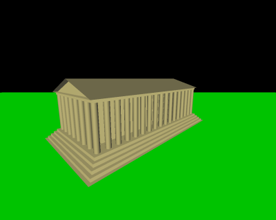 praetor alpha pass two, no shadow